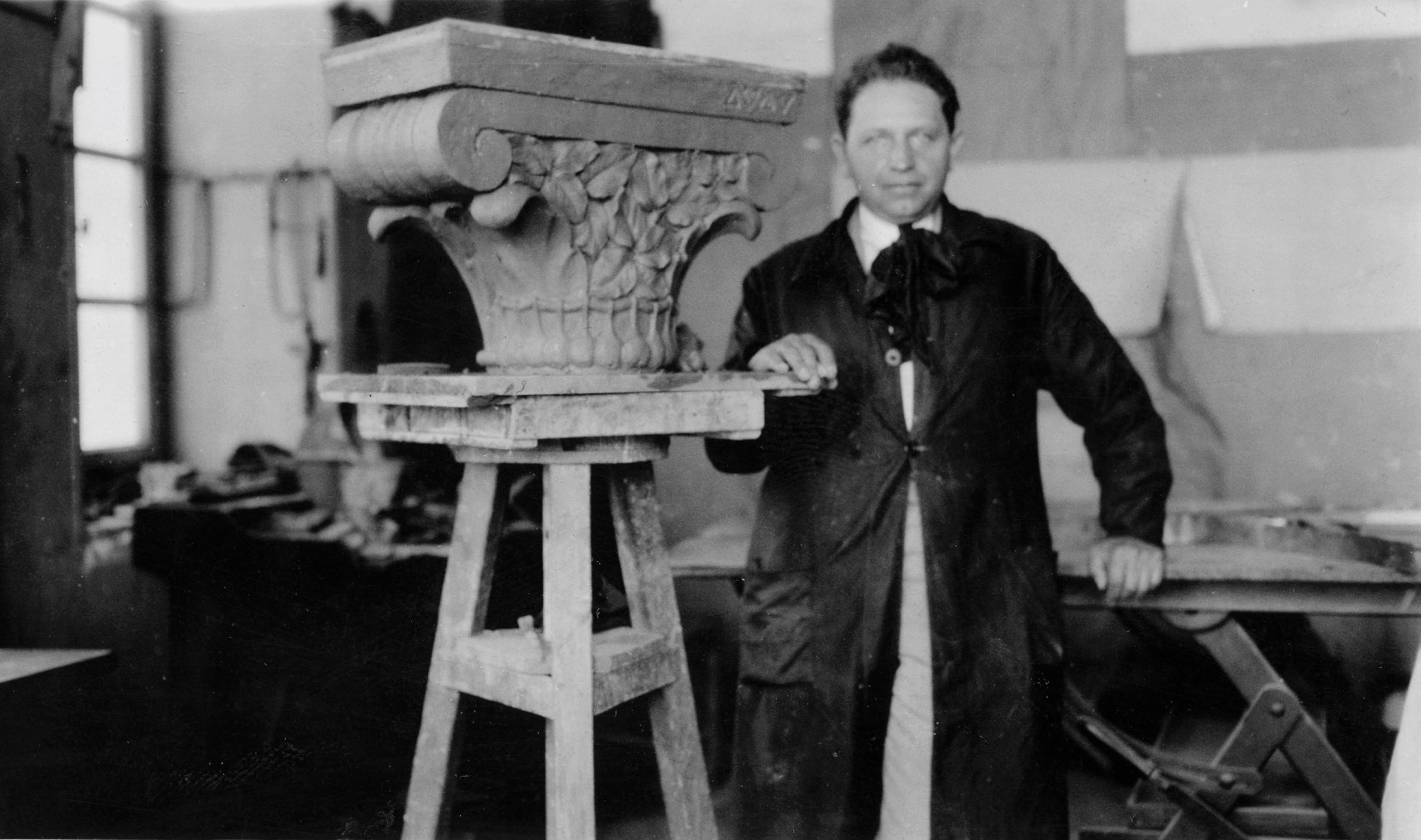 Artist Zeev Raban with a clay model of oak capital designed for the decoration of Y.M.C.A. building in Jerusalem. האמן זאב רבן ליד מודל של כותר עמוד שעיצב עבור בניין ימק"א בירושלים.